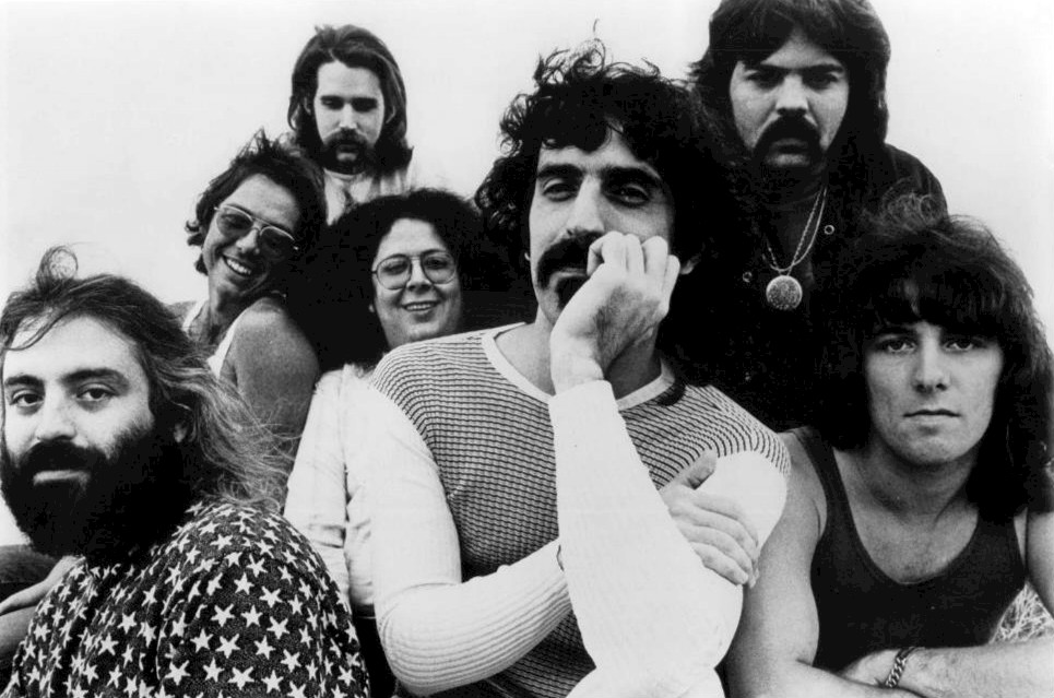 Publicity photo of Frank Zappa and The Mothers of Invention.